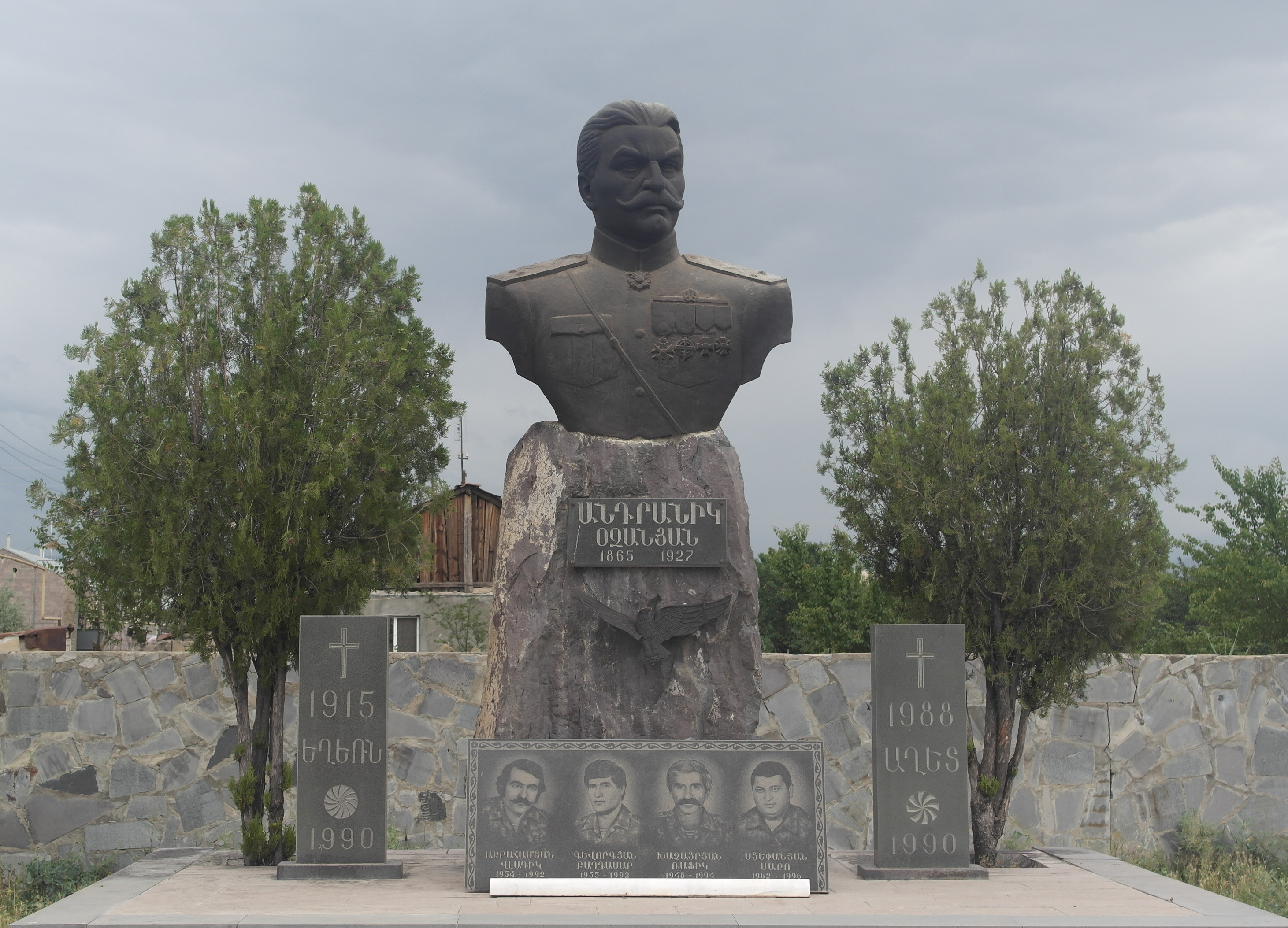 Անդրանիկ Օզանյանի հուշարձան, Ջրահովիտ